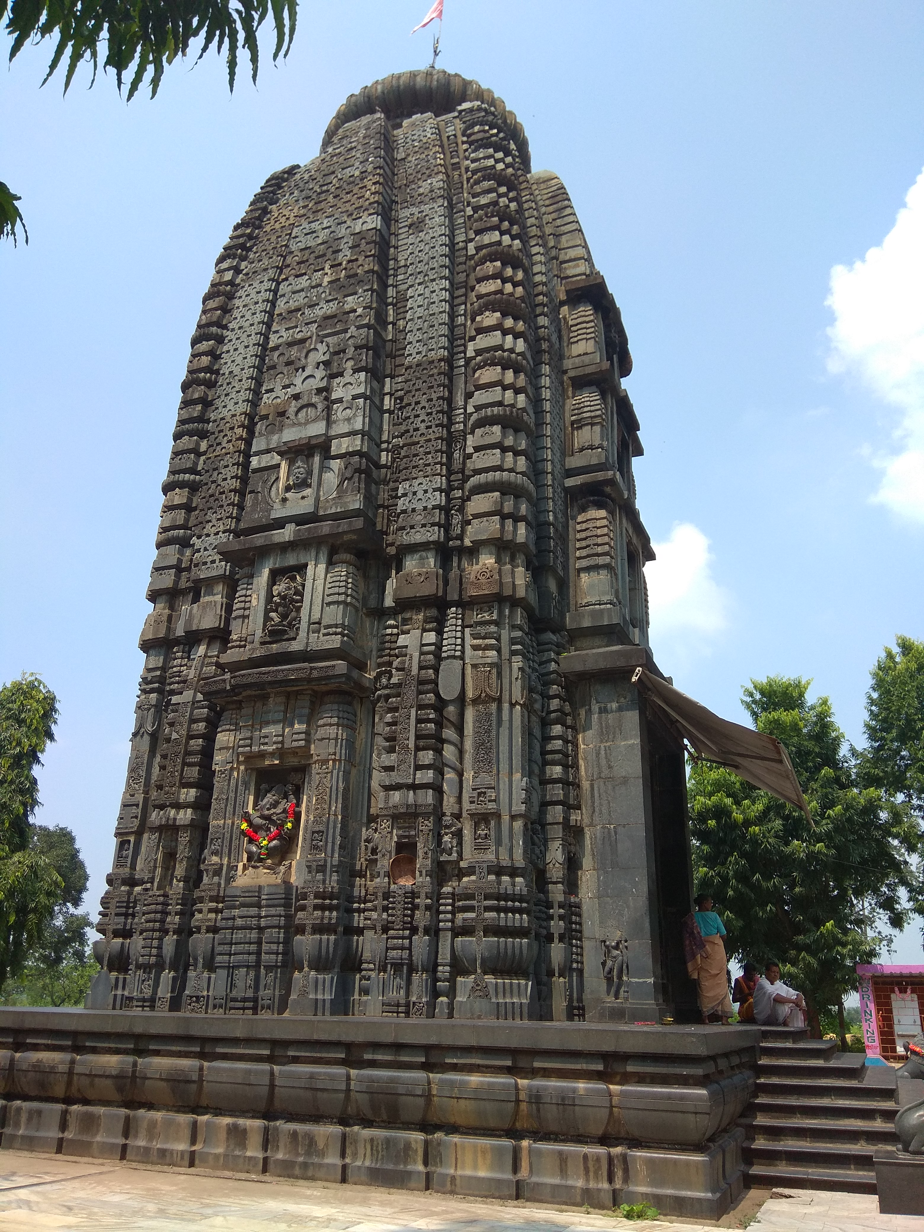 Khiching is an ancient village in Mayurbhanj District of Odisha, India. It is abode of Maa Kichakeswari Devi. Here was built a fabulous temple from Black Stone.